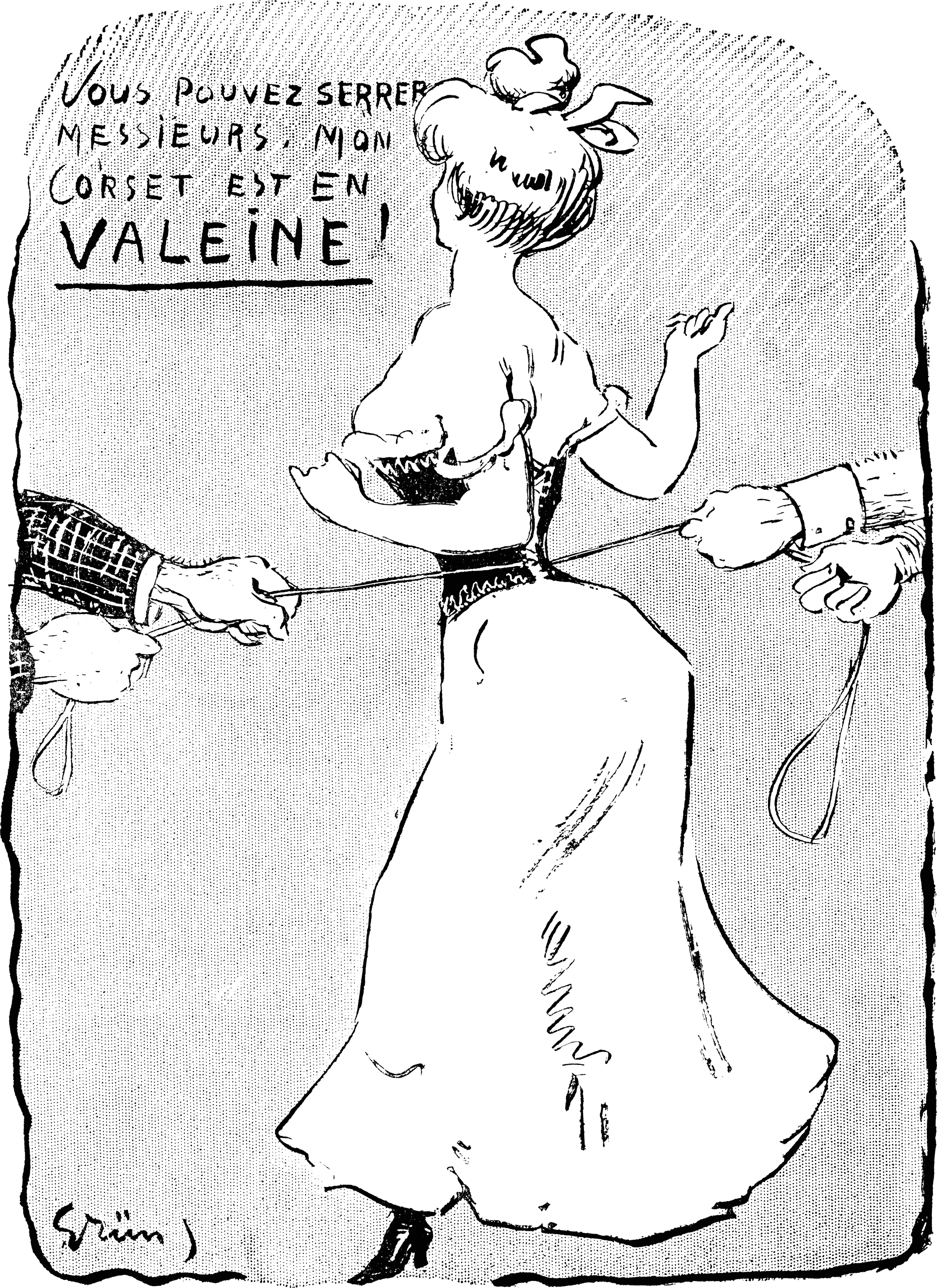 "Keep tightening, gentlemen. My corset's made of Valeine." or "Tighter, gentlemen. My corset's made of Valeine."